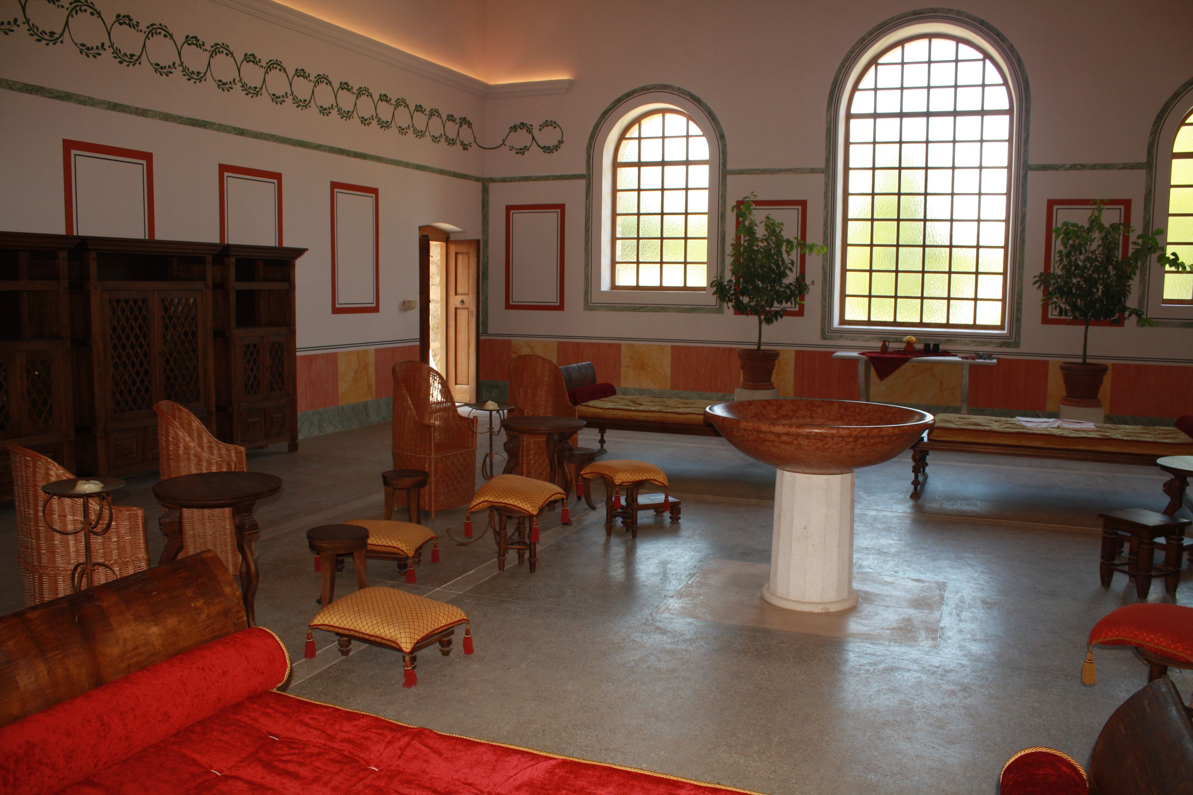 Open air museum Petronell in Lower Austria. Thermae: Basilica thermarum (central assembly room of the thermae).